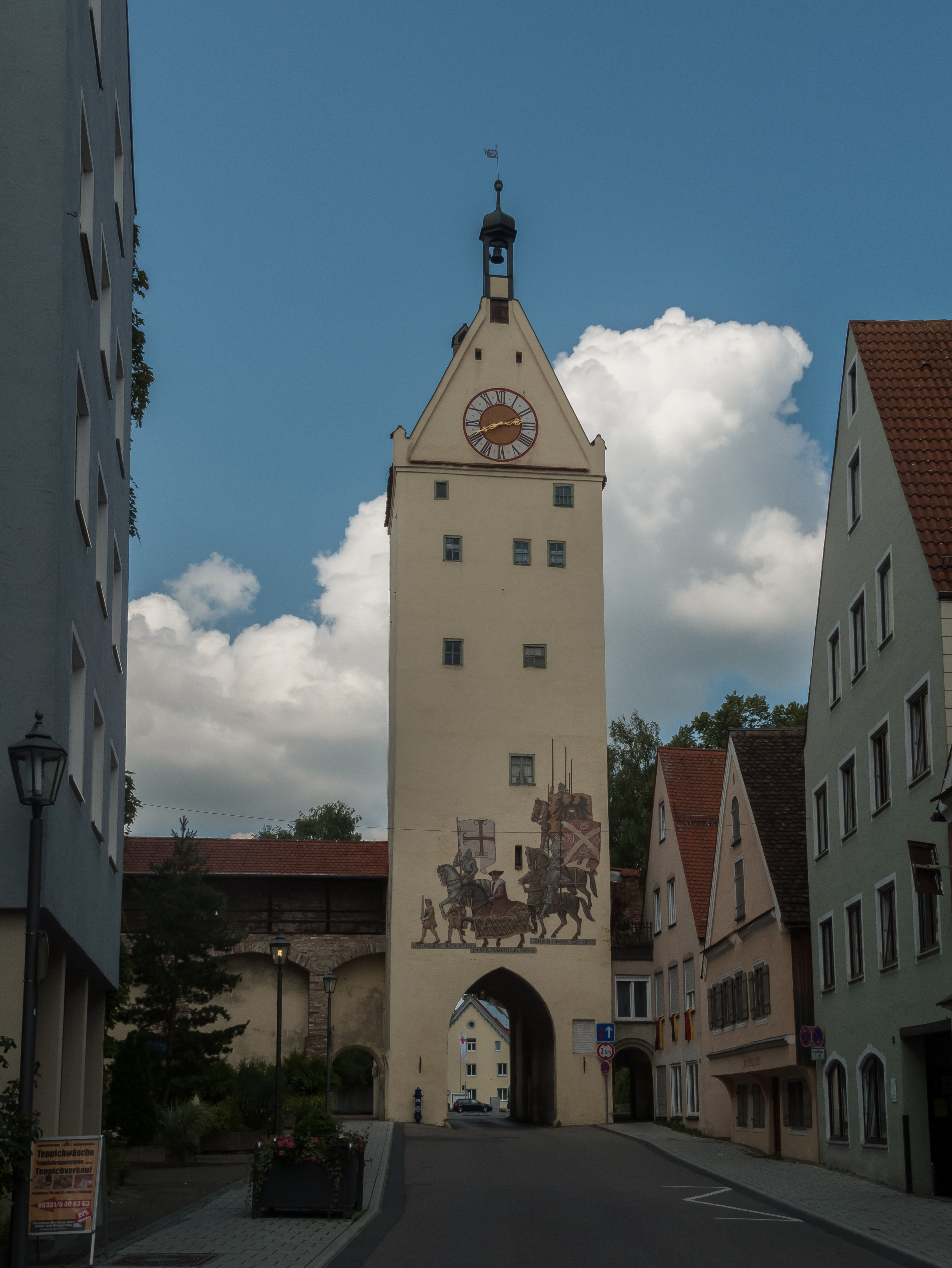 Memmingen, town gate: der Ulmer TorThis is a photograph of an architectural monument.